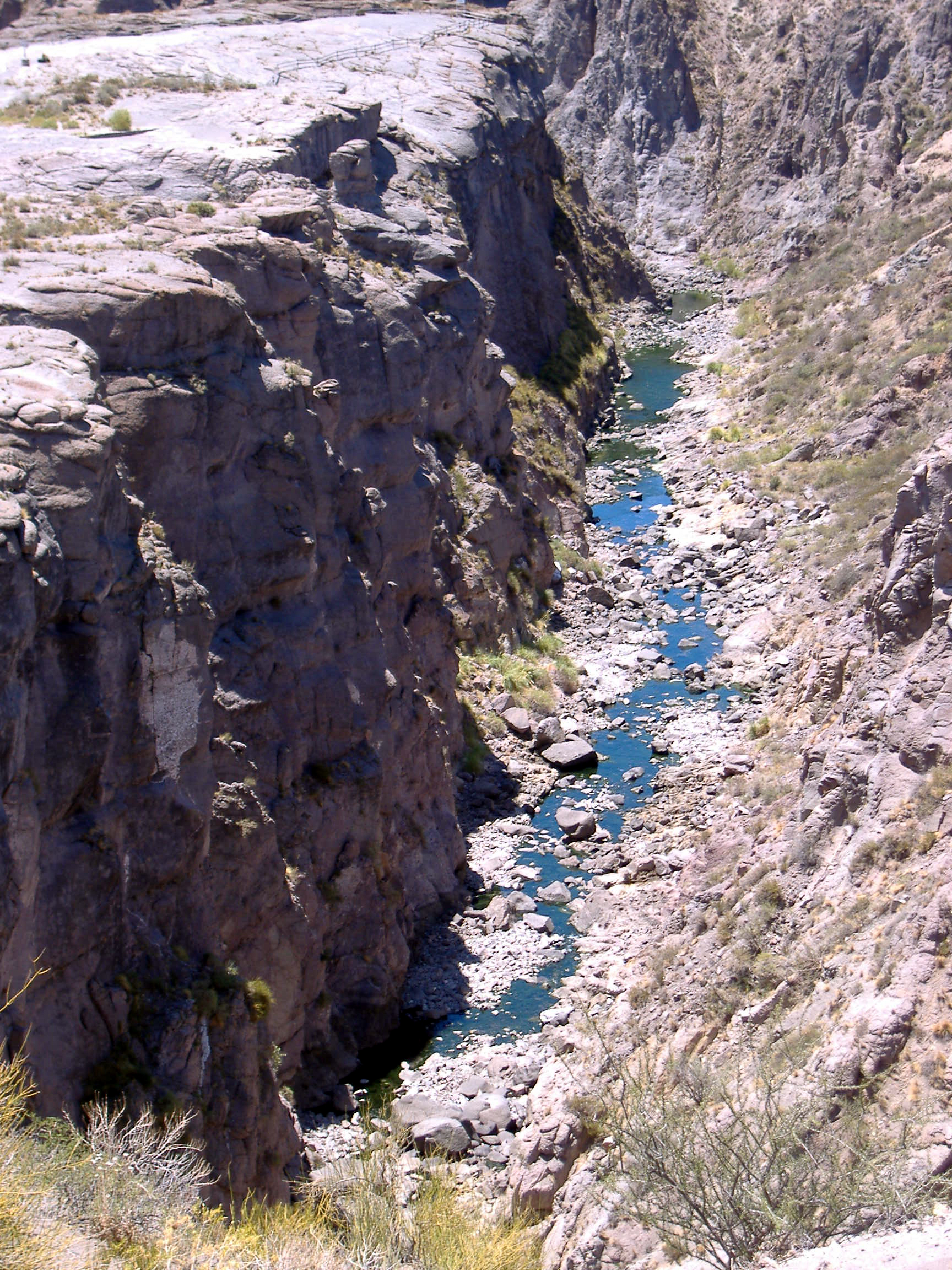 The last part of the canyon of the Atuel River in San Rafael, Mendoza, Argentina. Most of the flow of the river along the canyon has been redirected along tunnels excavated in the mountains, connecting reservoirs, to produce hydroelectricity.